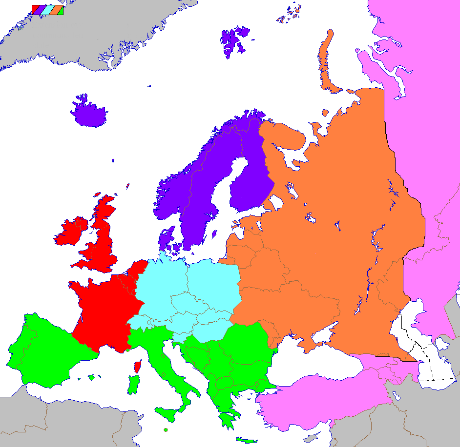 European Regions Central Europe Eastern Europe Northern Europe Western Europe (partial view) Southern Europe Asian countries with territories in Europe